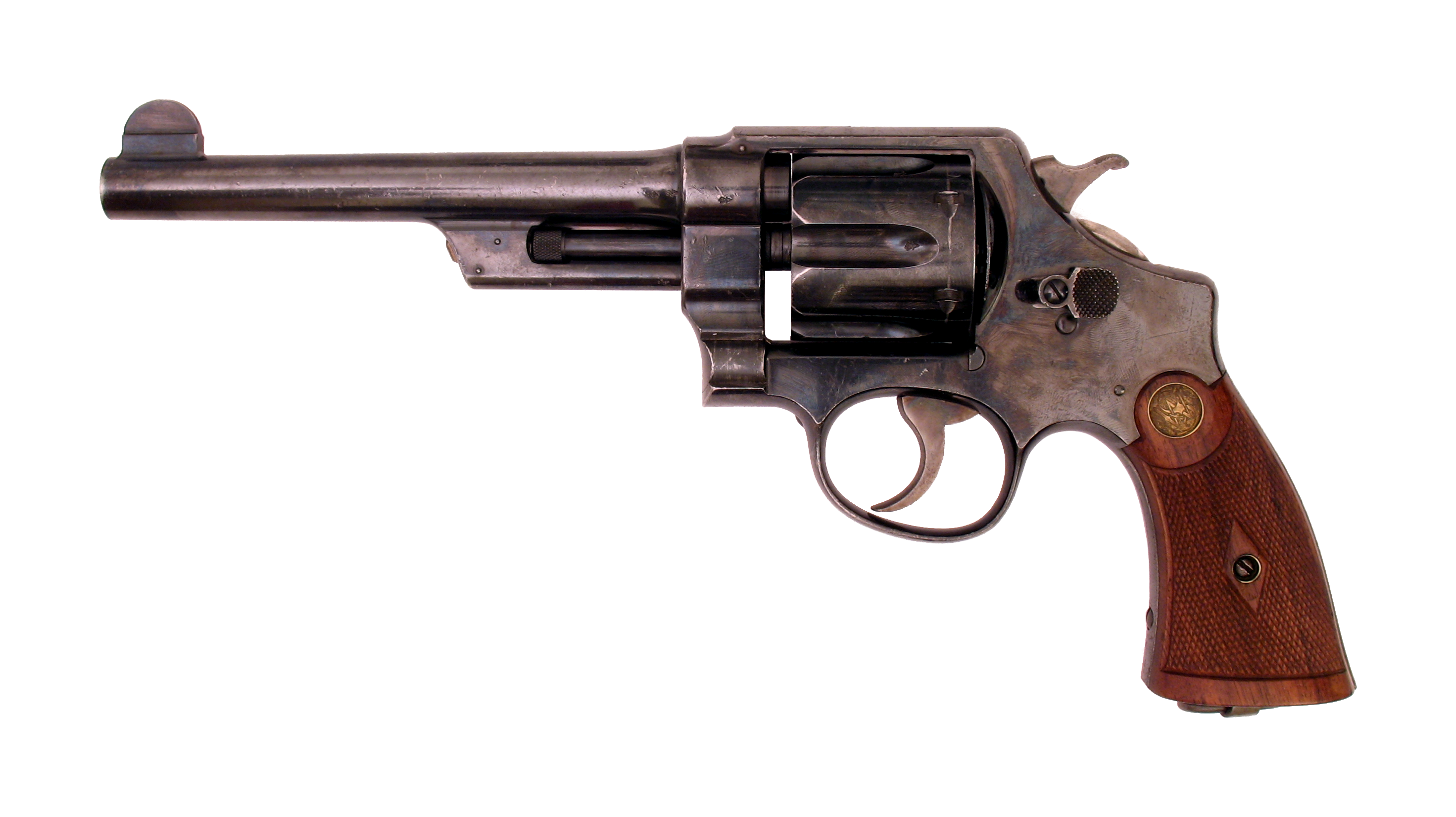 A Smith and Wesson .44 Hand Ejector 1st Model "New Century", chambered for .455, with English proof marks, likely used by English forces in WWI